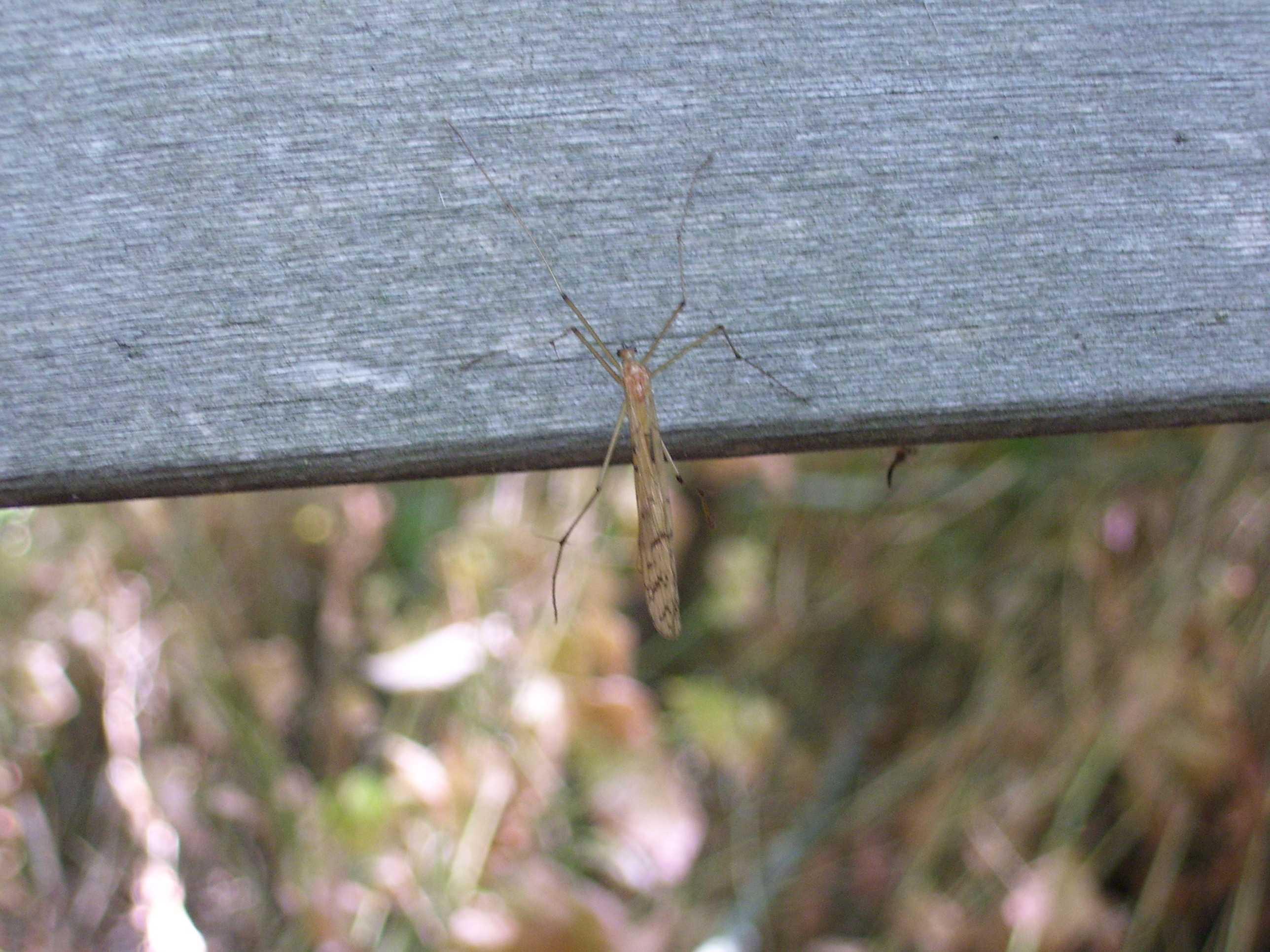 A Bittacus strigosus on a swamp trail in Battle Creek, MI.